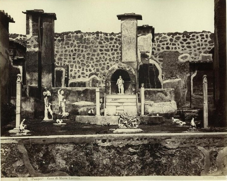 Giorgio Sommer (1834-1914), "Pompeii. Marcus Lucretius's house". Catalogue #: 1221. Image from house IX 3,5.